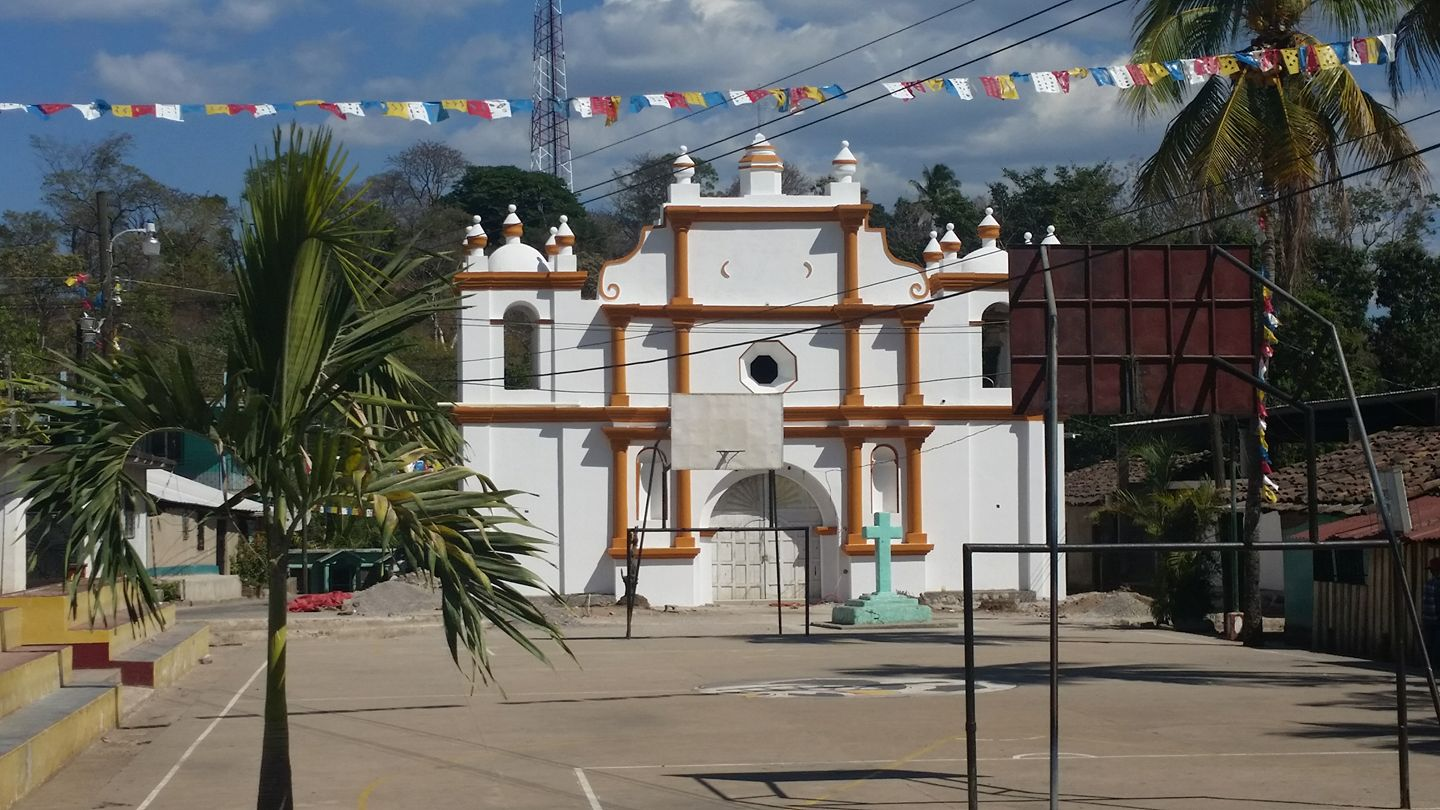 Iglesia Colonial Concepción Intibuca